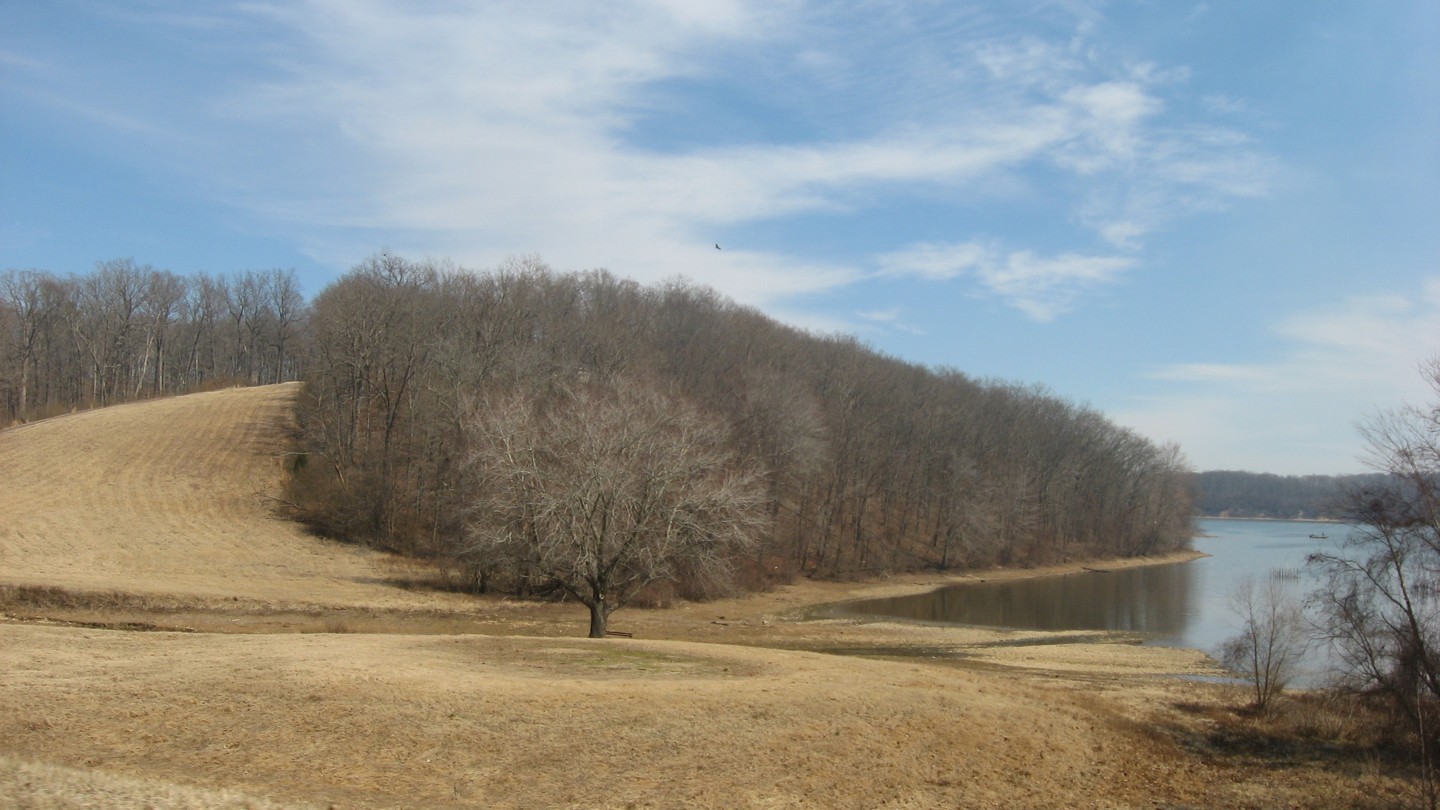 Land at the western end of the former Cherokee State Park section of Kenlake State Park, located east of Hardin in Marshall County, Kentucky, United States. Seen here from Kentucky Route 94, the park has been listed on the National Register of Historic Places.